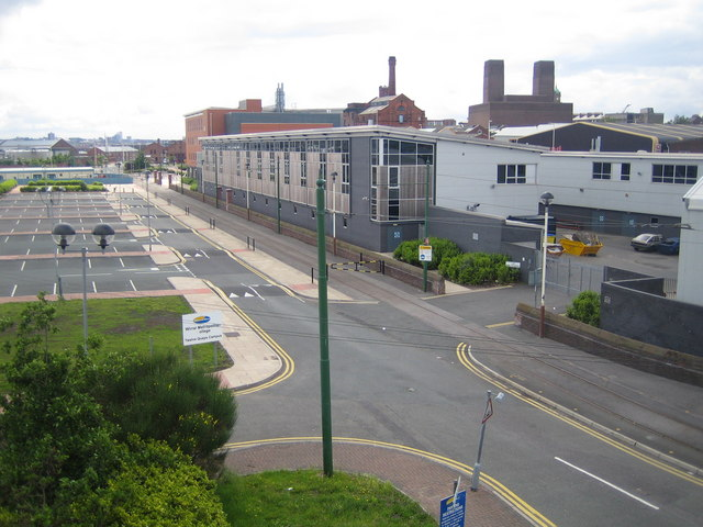 Birkenhead docks: Wirral Metropolitan College